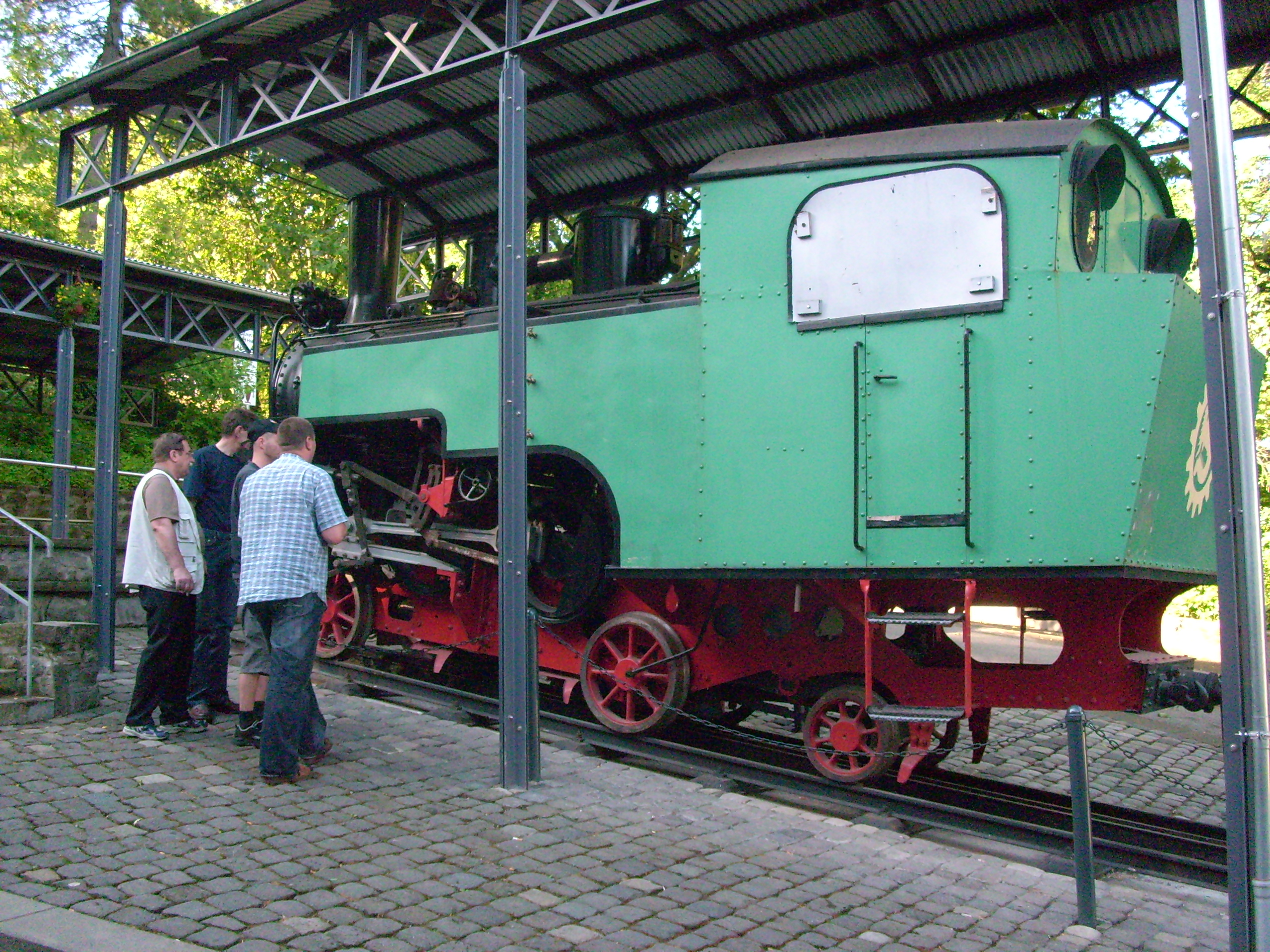 Rack steam locomotive Drachenfelsbahn No. 2 (Esslingen 4185/1927) at Königswinter, Germany, June 23 2008 after refurbishment at Interlok workshop, Pila, Poland.